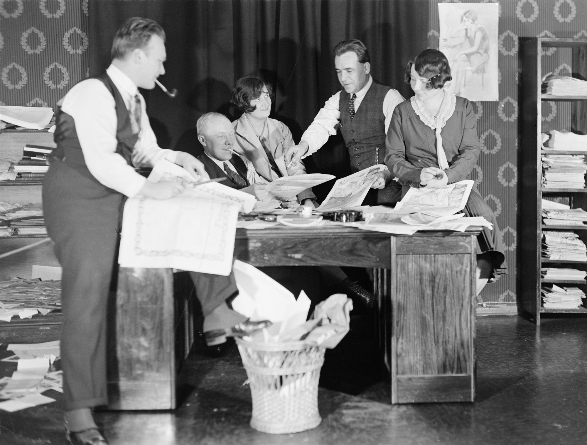 The editorial staff of Kuluttajain Lehti at their offices. From the left: Untamo Utrio, editor-in-chief Hannes Uksila, Karoliina Otava, Eino Heinivaara and Lyyli Takki.